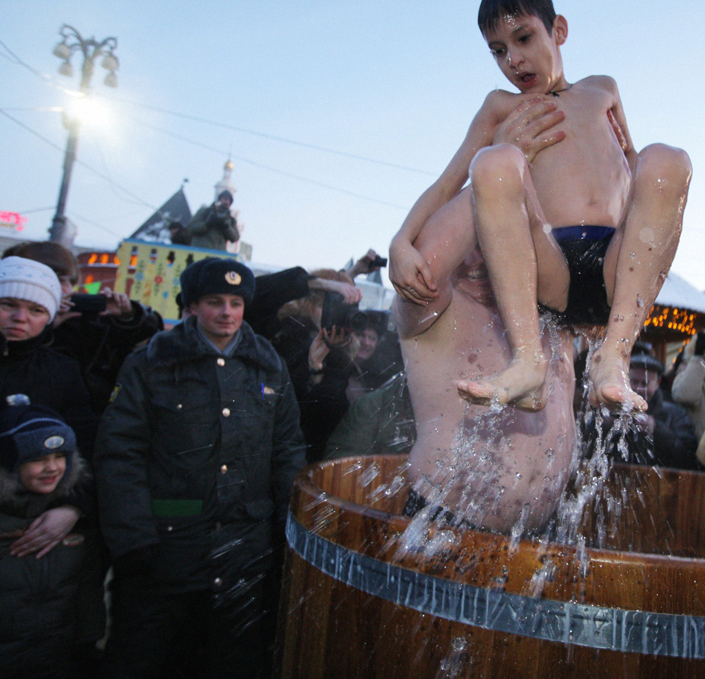 “Epiphany celebrations in Moscow”. Epiphany bathing on the Feast of Theophany on Revolution Square, Moscow.